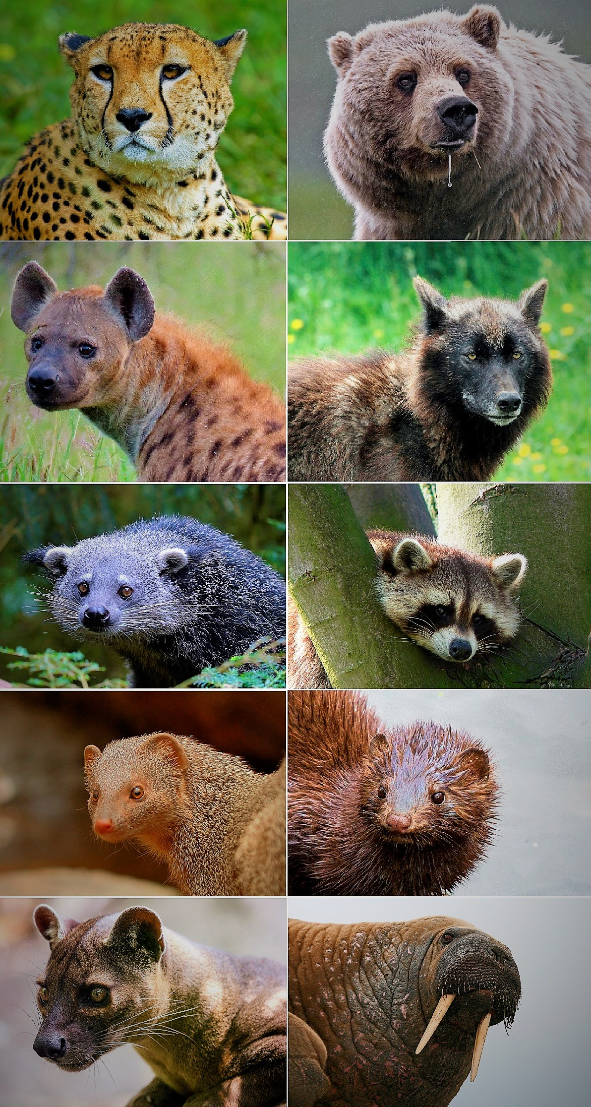 Portraits of various carnivorans